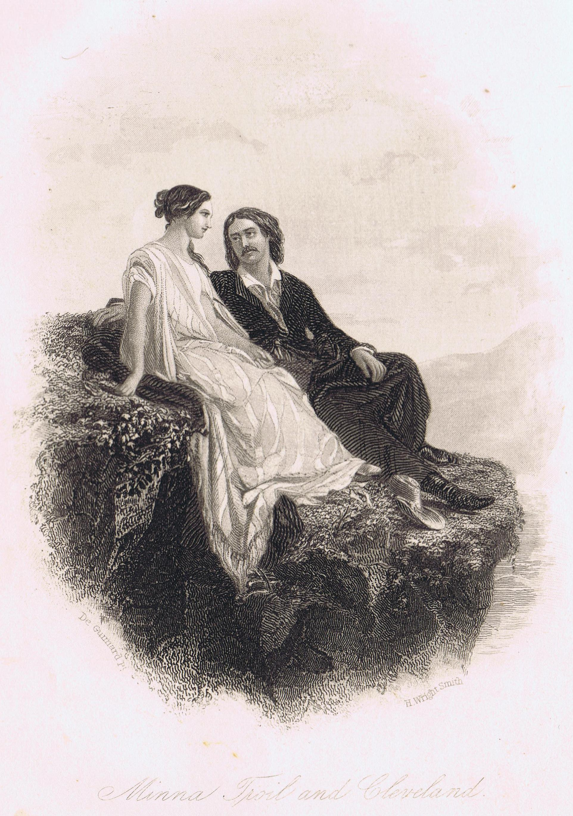 Illustration from 1879 edition, Houghton, Osgood and Company, Boston